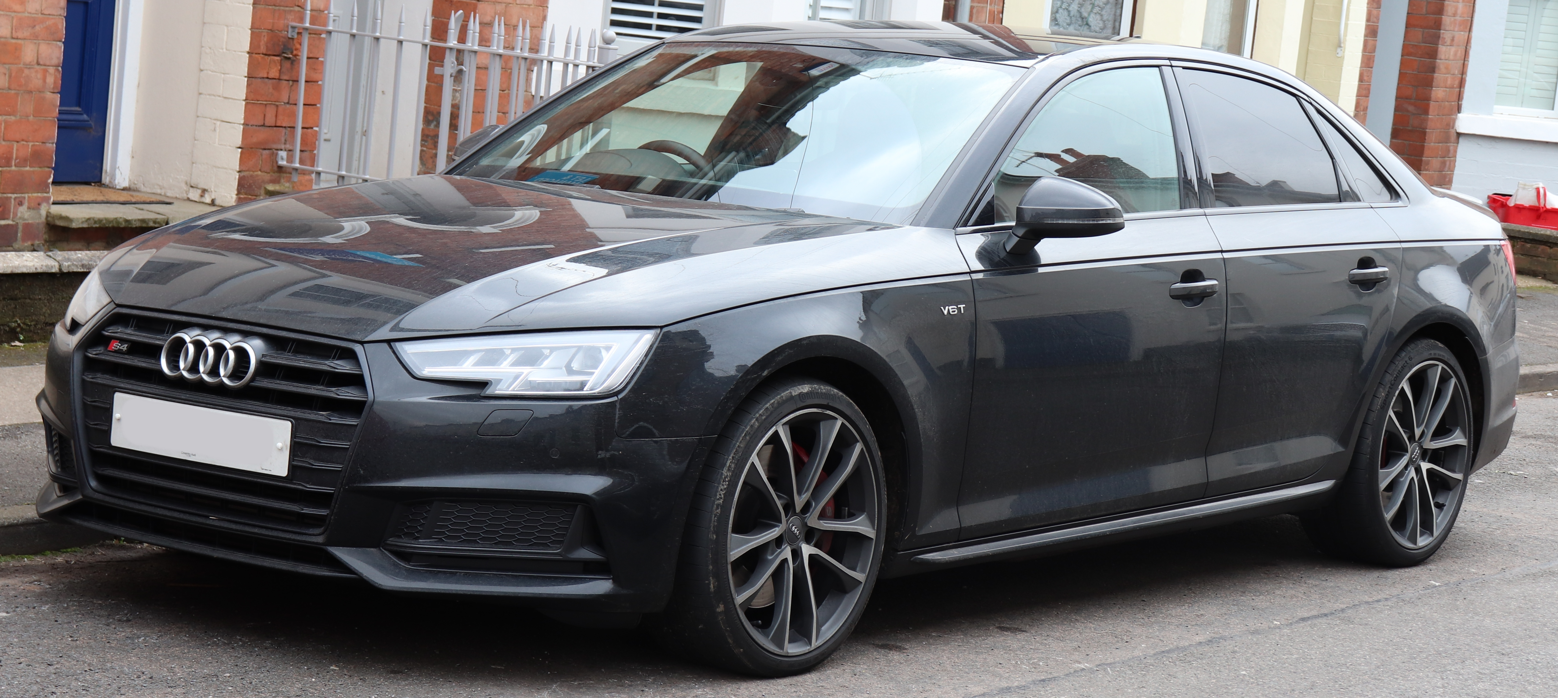 2017 Audi S4 TFSi Quattro Automatic Sedan 3.0 Front Taken in Leamington Spa